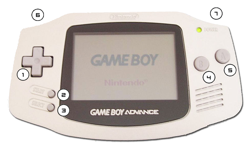 GBA controls detailed